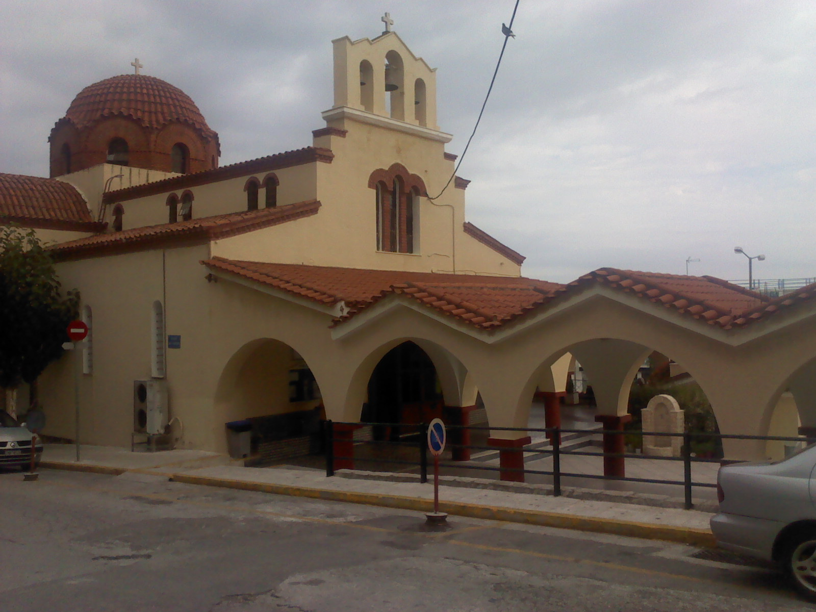 Churche Theotokos Pantovasilissa Rafina